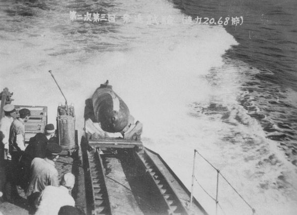 Kaiten Type 1 launch test from port of HIJMS Kitakami